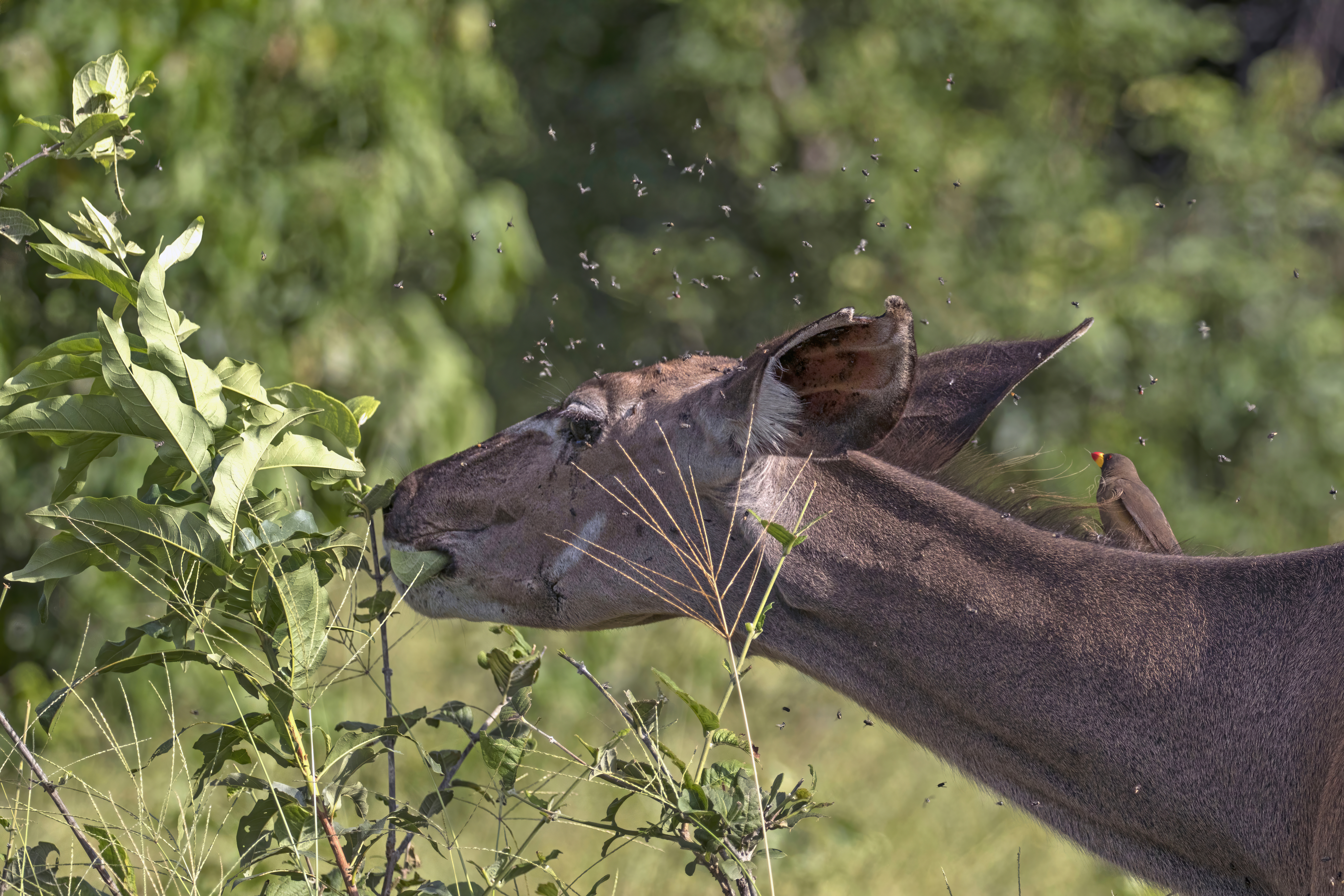 Greater kudu (Tragelaphus strepsiceros strepsiceros) female, with flies and oxpecker, Chobe National Park, Botswana